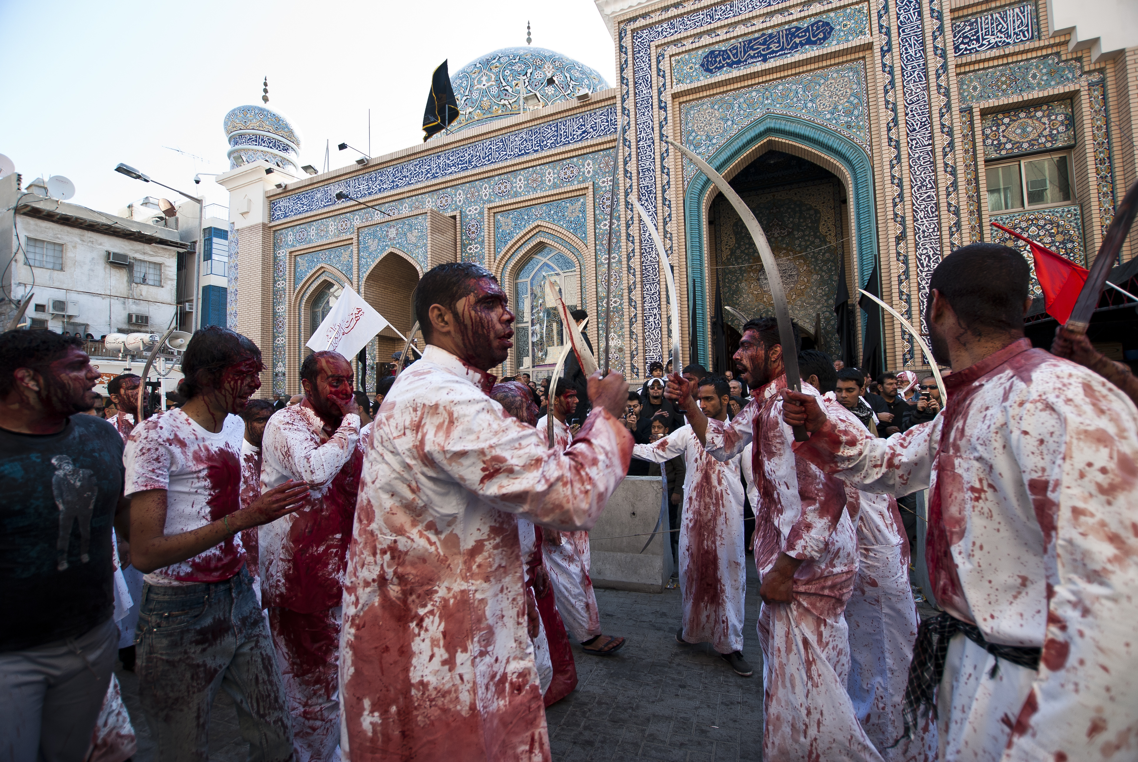 Shia Muslims commemorate the martyrdom of Hussein ibn Ali on the Day of Ashura during Sunni-Shia conflict in the early history of Islam. Muharram is the day of mourning. Shia march in the streets, self flagellating, flailing and beating themselves. The injury and blood during this festival of mourning serves as a reminder to Shia of the sacrifice and pain of Ali. Certain traditional flagellation rituals such as Talwar zani (talwar ka matam or sometimes tatbir) use a sword (shown above). Other rituals such as zanjeer zani or zanjeer matam involve the use of a zanjeer (a chain with blades). Moharram in المنامة Al Manāma, Bahrain 2011.